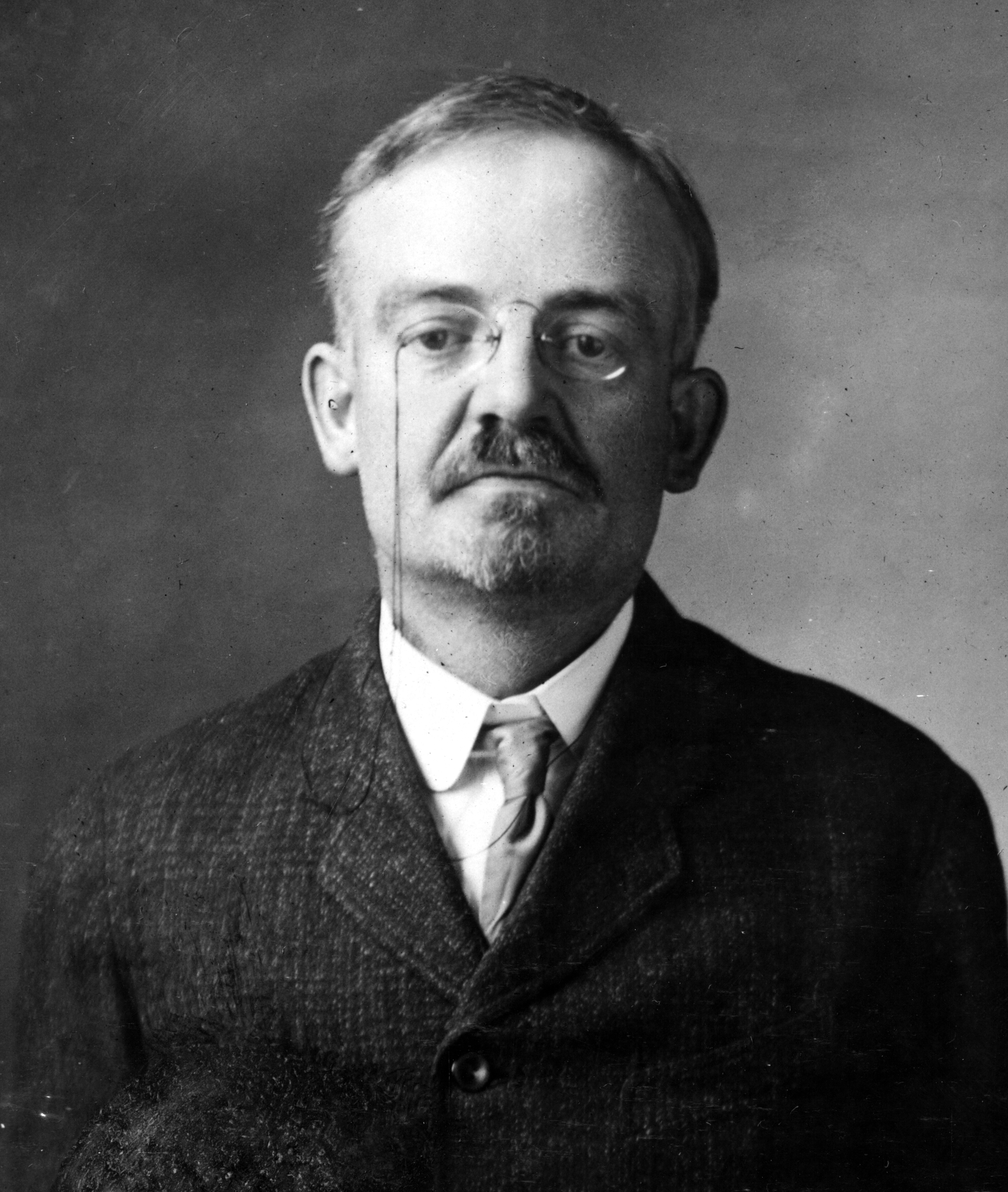 Alfred Hulse Brooks, for whom the Brooks Range in Alaska is named, first USGS chief of Alaska Geology, and Alaska Railroad Commission, possibly at the time of appointment to the commission.